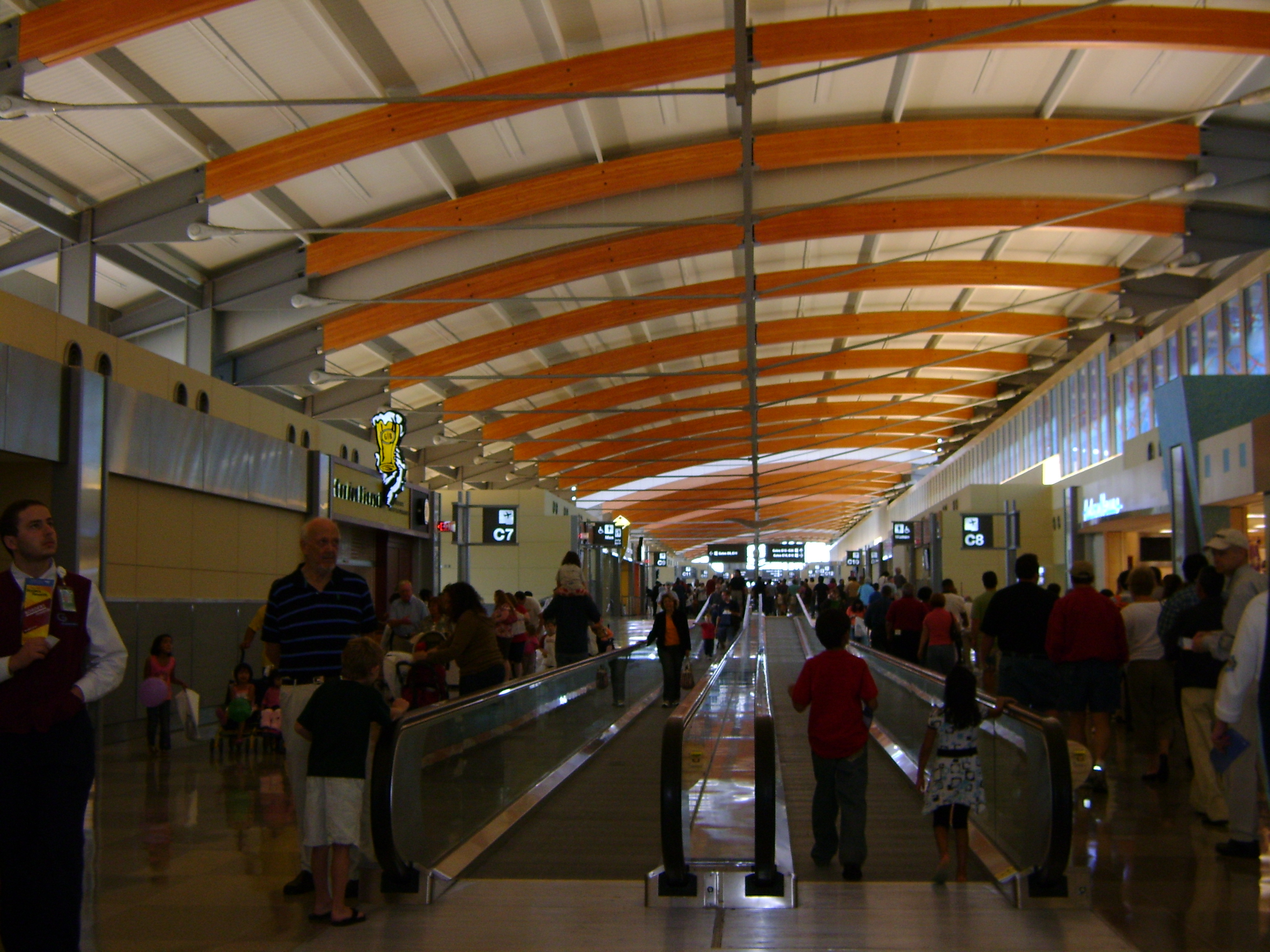 A view of Concourse C inside RDU's Terminal 2.